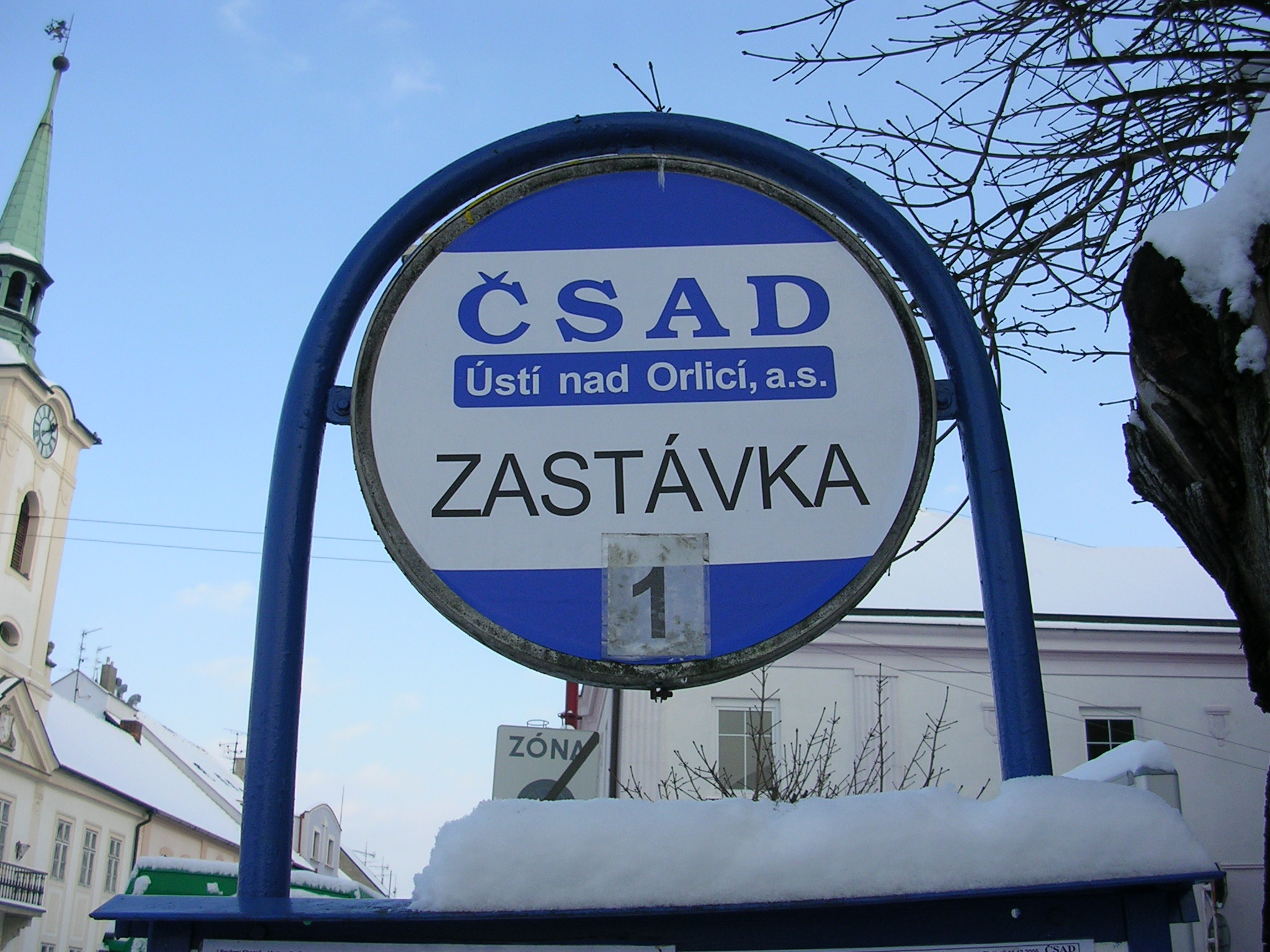 Kostelec nad Orlicí, the Czech Republic. A bus stop at the Palacký's square.